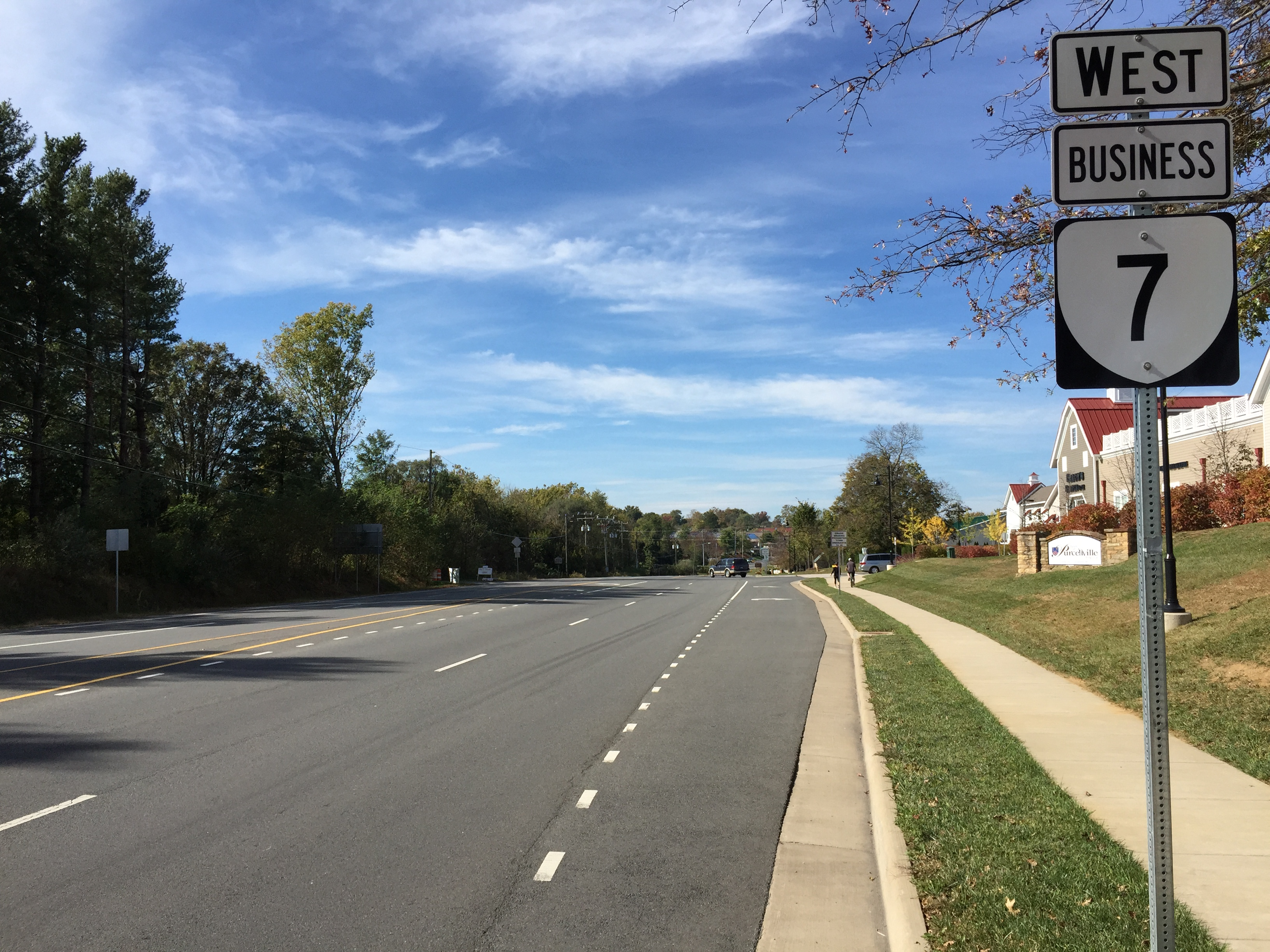 View west along Virginia State Route 7 Business (Main Street) at Virginia State Route 287 (Berlin Turnpike) in Purcellville, Loudoun County, Virginia